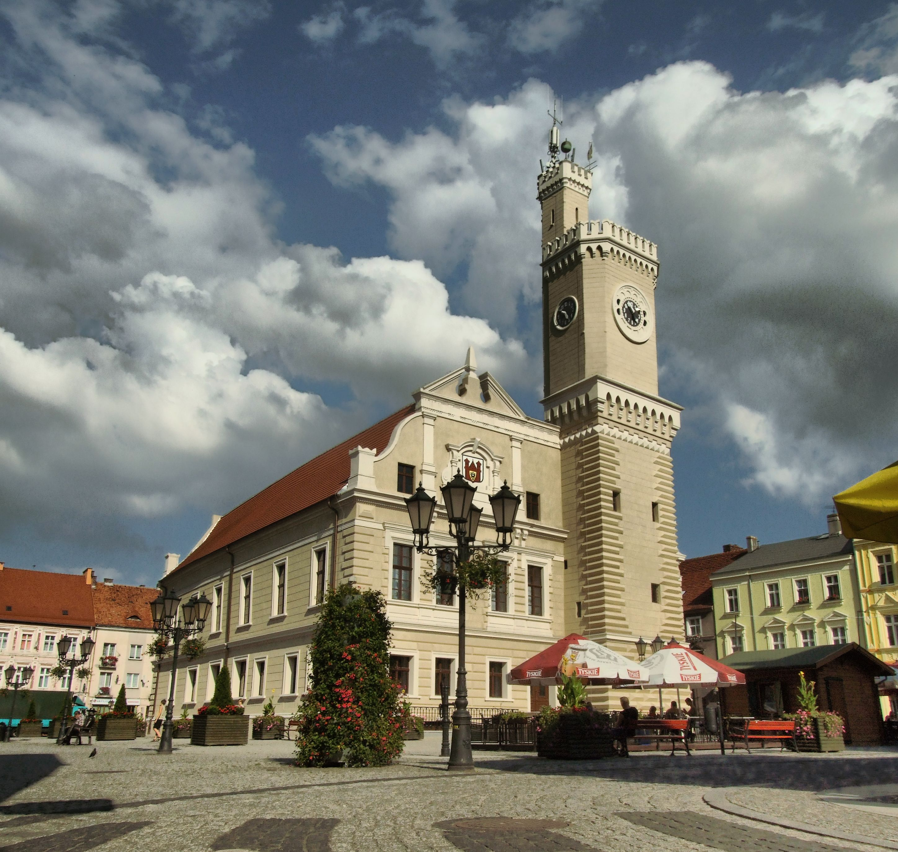 the City Hall in the city of Świebodzin, Poland